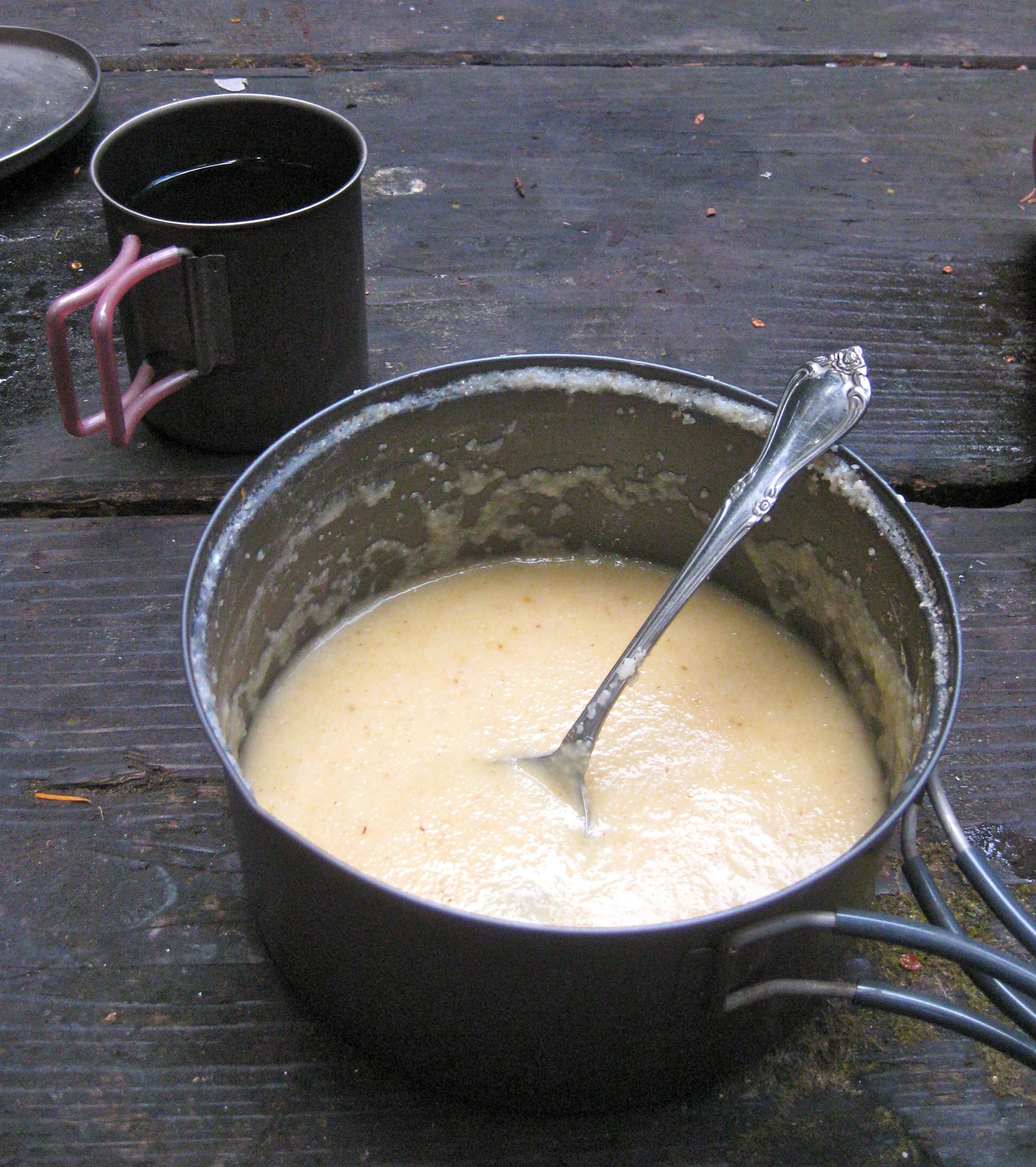 A breakfast of Malt-O-Meal with coffee. Malt-O-Meal is a combination of malted and farina wheat[1].